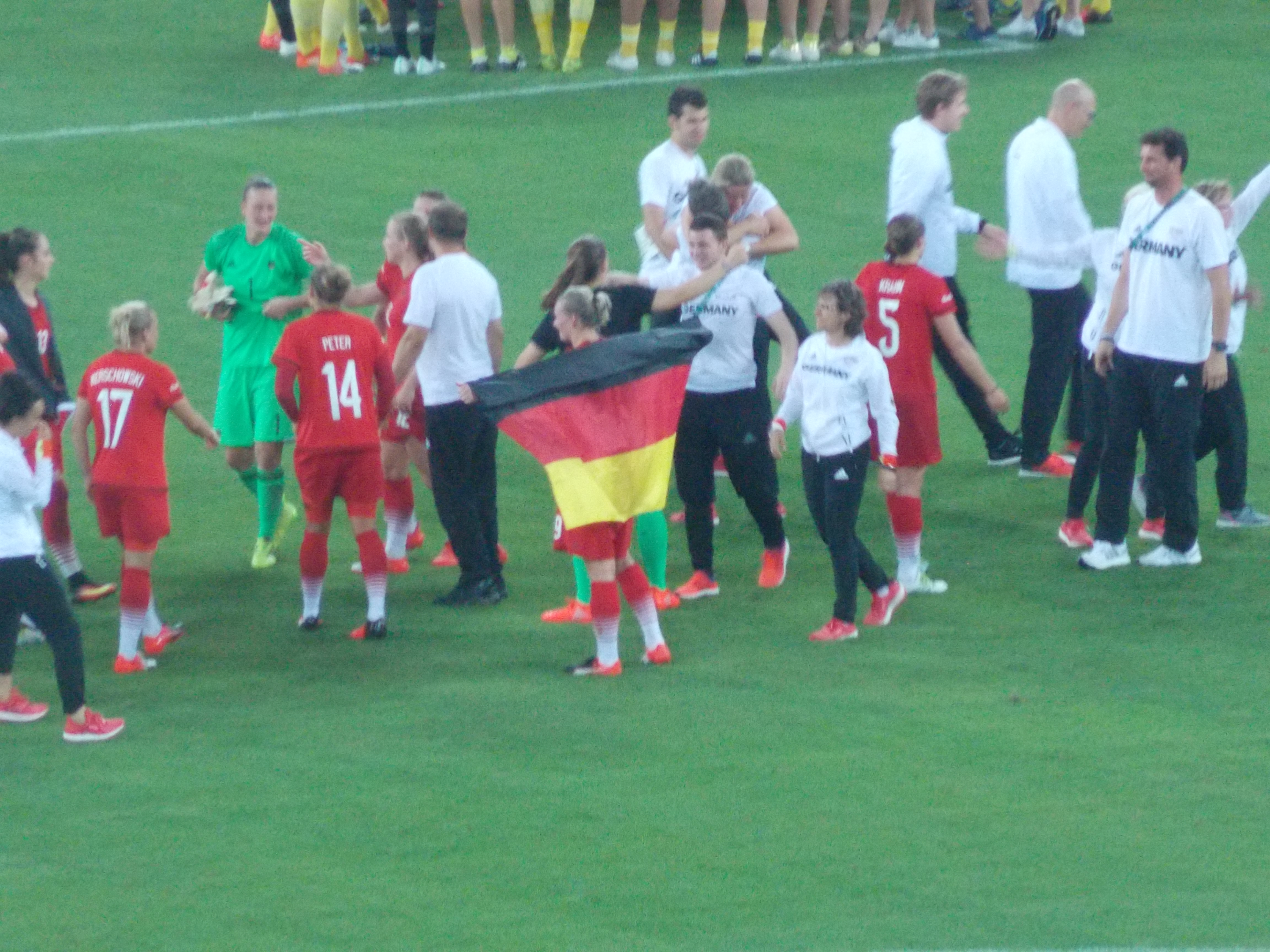 Football at the 2016 Summer Olympics – Women's tournament – Gold medal match.